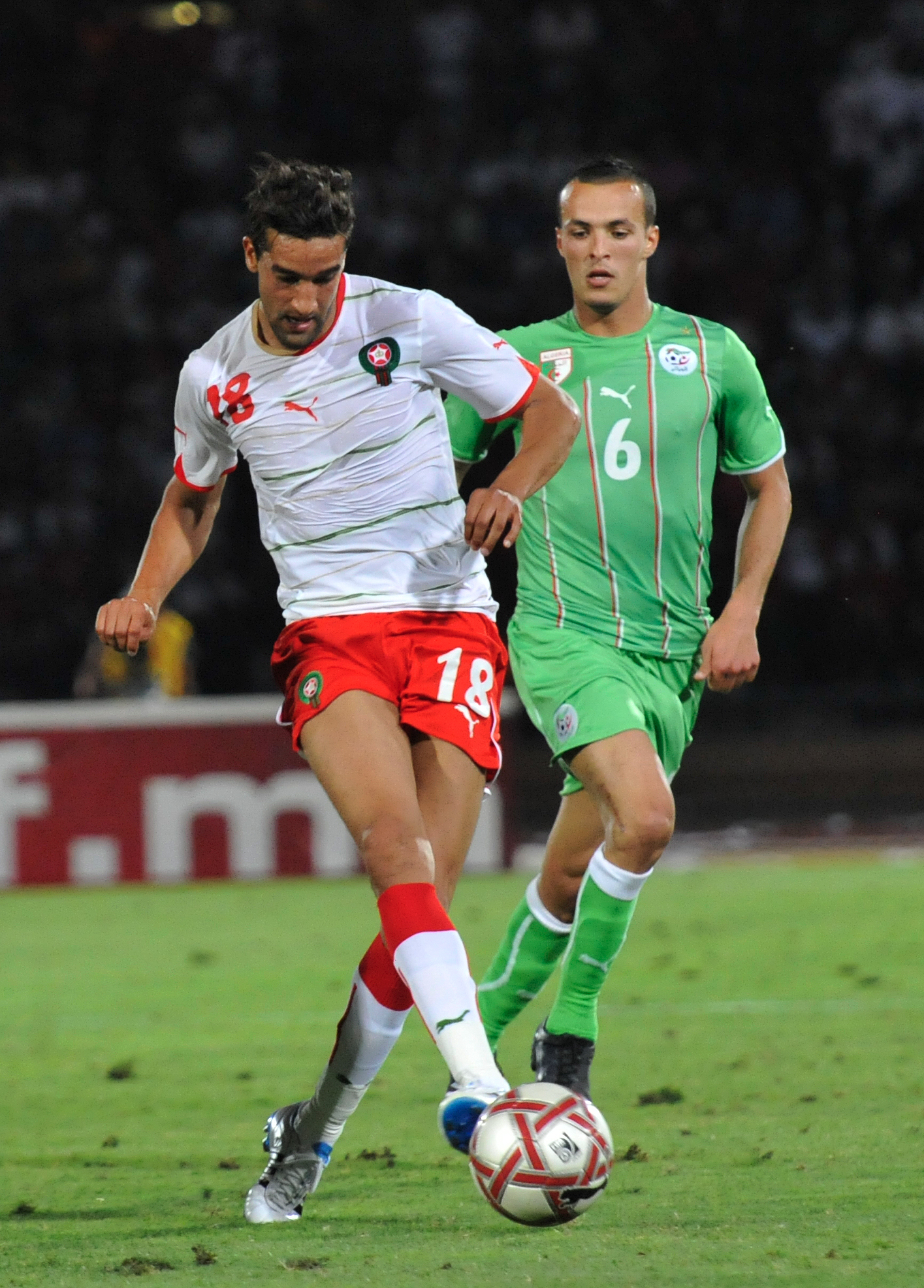 Moroccan football player Youssouf Hadji during match against Algeria